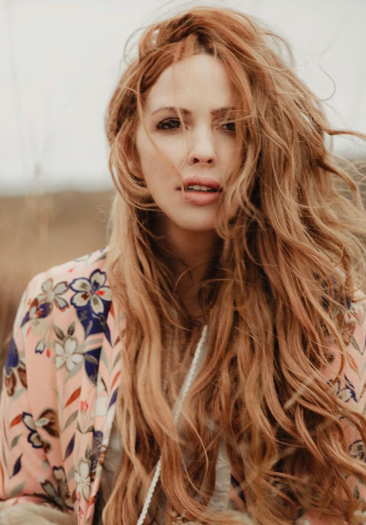 Lisa Lambe's sophomore album Juniper